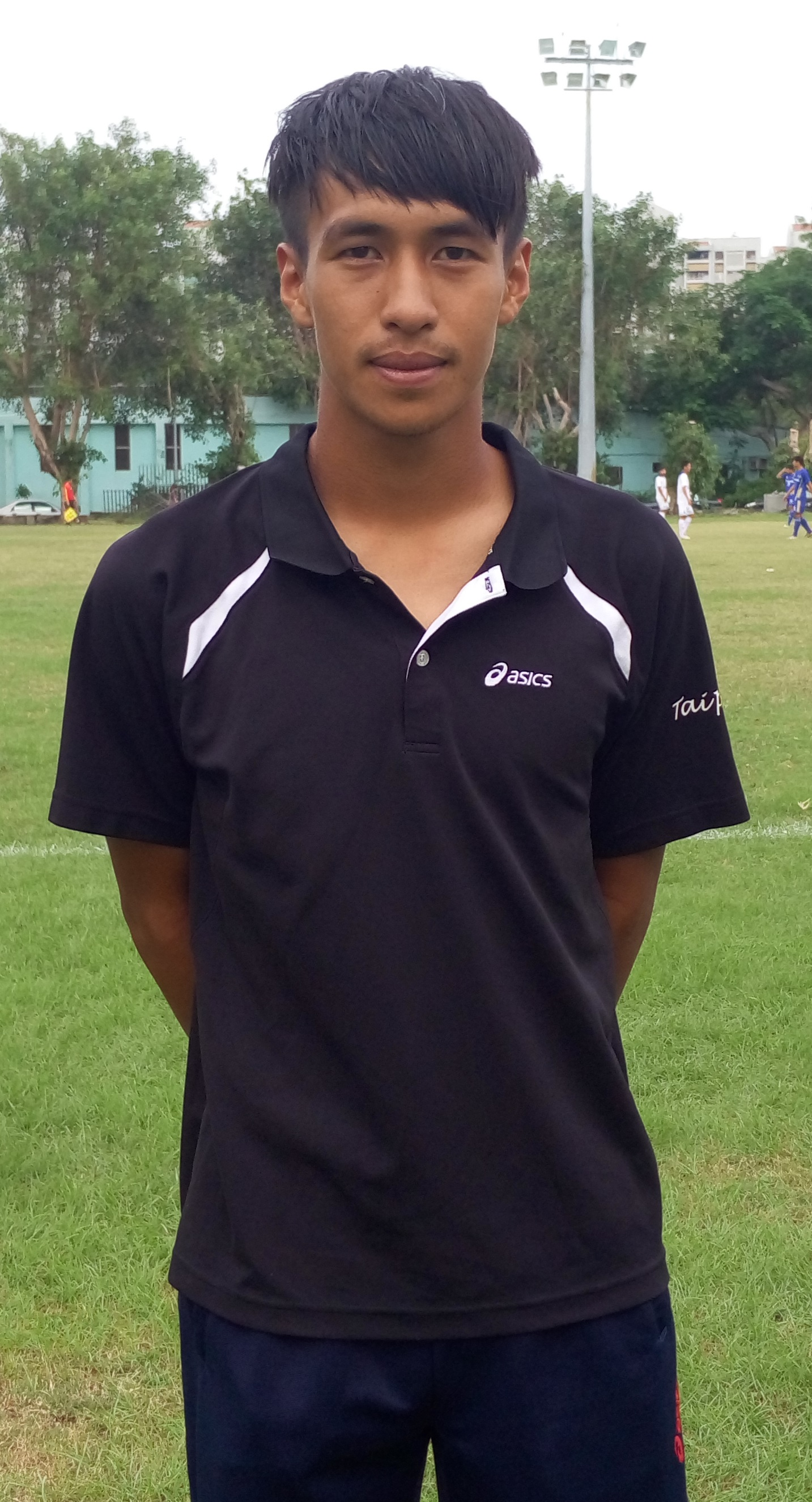 Lin Chang-Lun (CHT:林昌倫) The Football Player from Taiwan